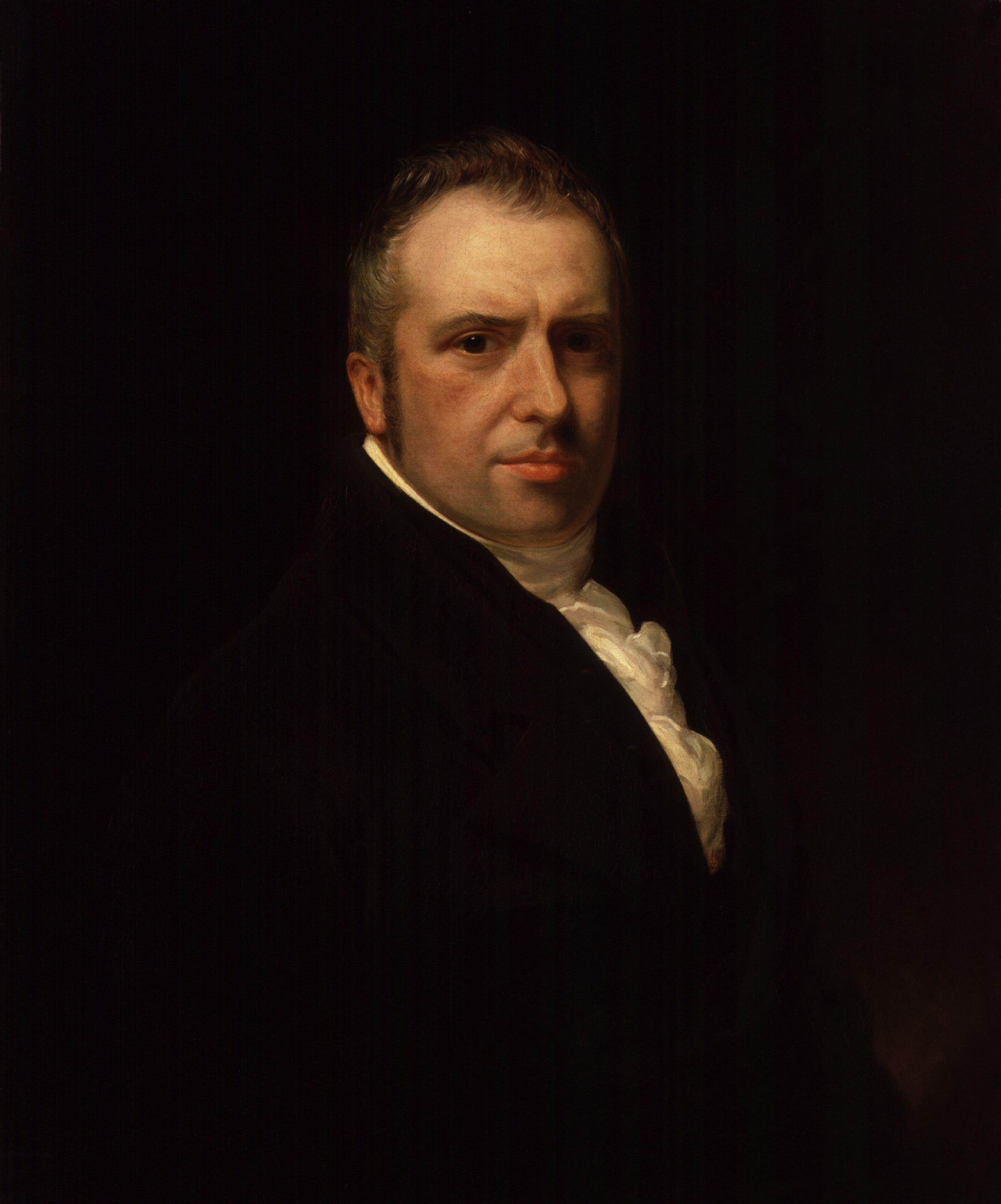 William Hone, by William Patten, given to the National Portrait Gallery, London in 1899. All images in this batch have a known author, but have manually examined for strong evidence that the author was dead before 1939, such as approximate death dates, birth dates, floruit dates, and publication dates.